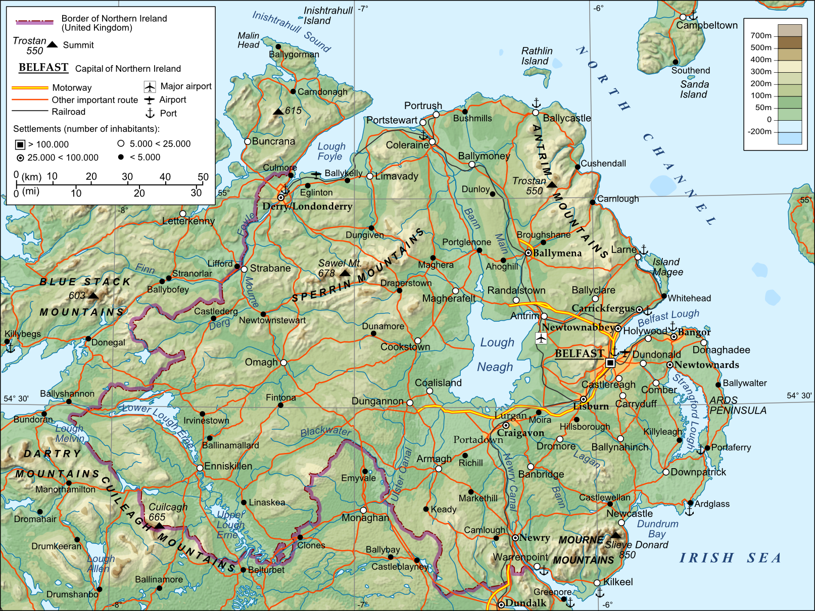 Made with GRASS GIS, The Gimp and Inkscape software from public-domain GIS data (SRTM3, VMAP0). Relief levels vectorised and exported to SVG. The relief shading is embedded bitmap graphics. The rivers, roads, railroads and shoreline are from the VMAP0 database.Additional references: Wikipedia Northern Ireland related articles and lists and the 'Great Road Atlas of Europe', Freytag&Berndt u. Artaria KG, Vienna 2007. Projection: Orthographic with central parallel 55N and central meridian 7W. Geodetic datum: Wgs84.